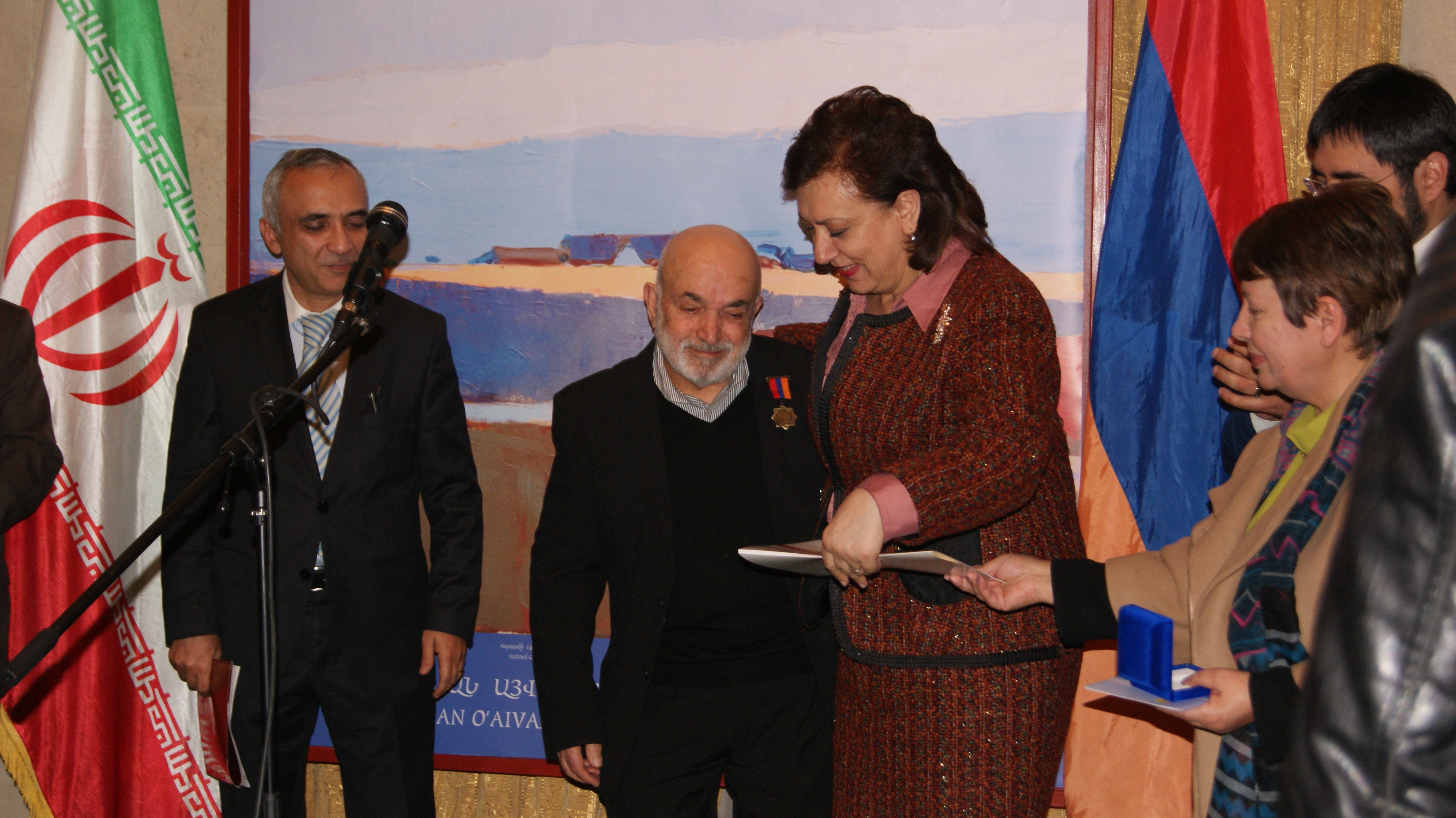 Edman Ayvazyan receiving Arshil Gorki medal